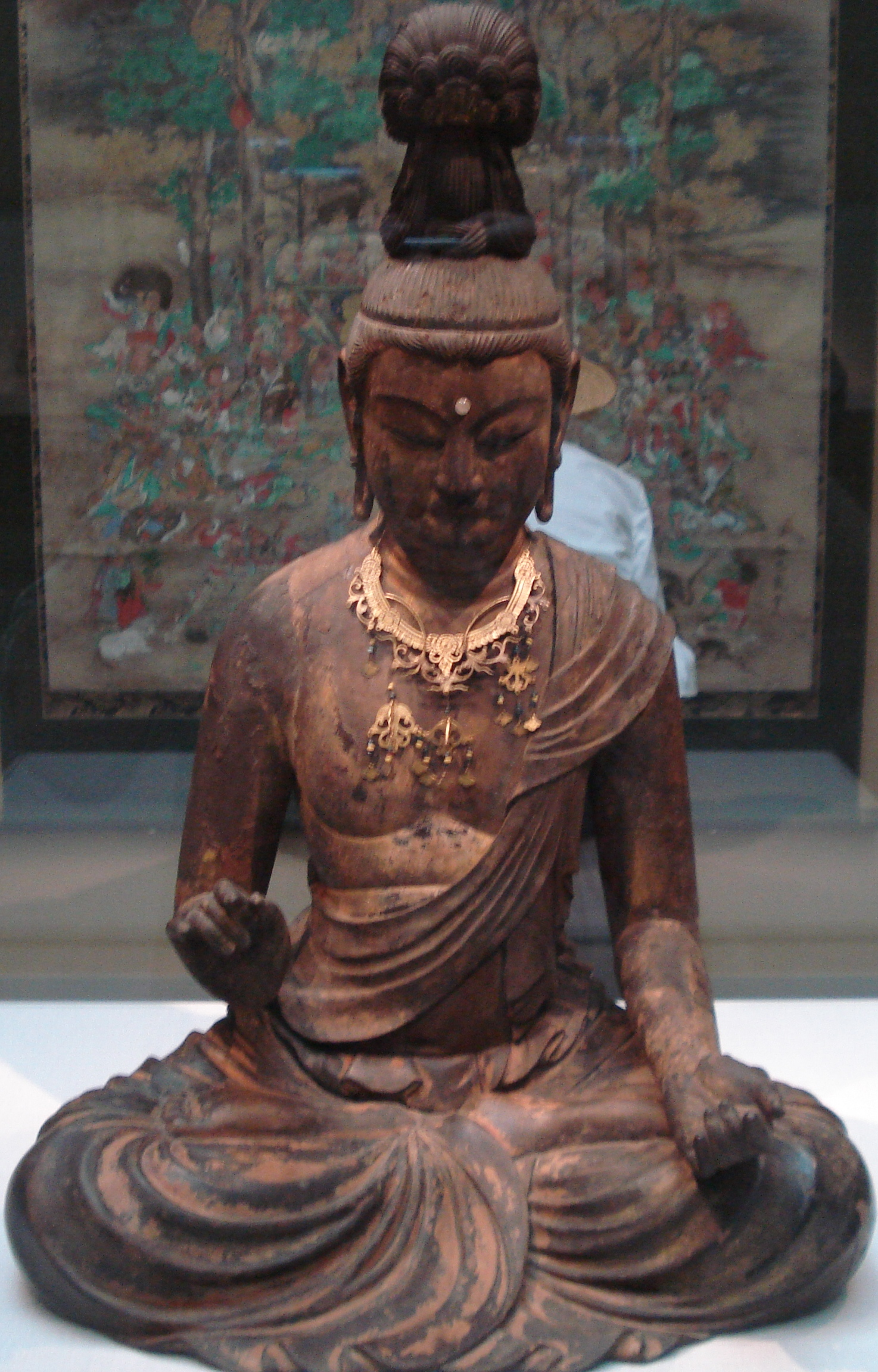 A Japanese wooden bodhisattva statue with lacquer, gold, copper, and crystal, made by Kaikei (fl. 1185–1220 AD) during the early Kamakura period (early 13th century). The signature of the master sculptor Kaikei is found on the cavity of this statue. As seen in this statue and others, glass or rock crystal were used in this period to emphasize the eyes in a realistic fashion.